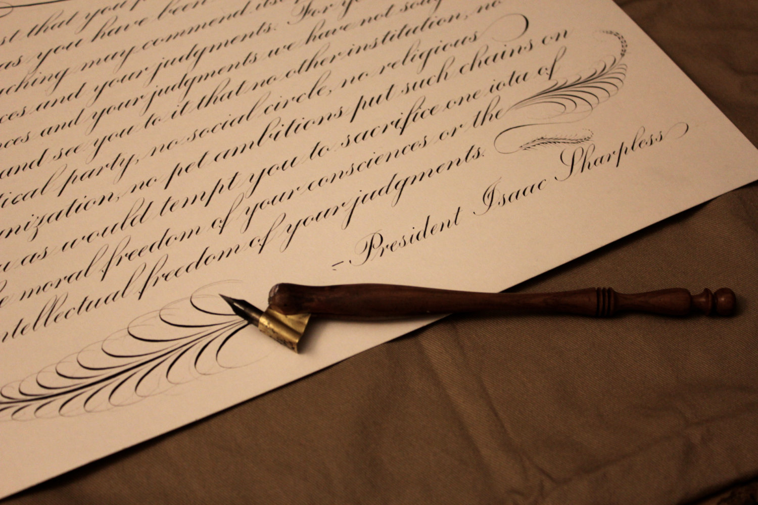 A sample of copperplate script with offhand flourishing. The pen-holder in the photo (an oblique pen-holder) is commonly used by copperplate calligraphers. The quotation is by Isaac Sharpless, president of Haverford College, from a speech given in 1888.